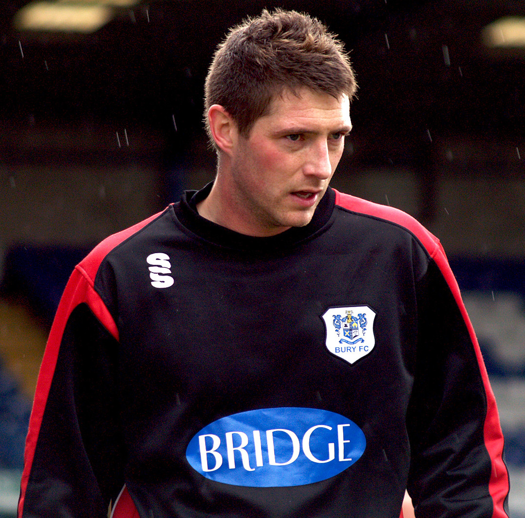 Bury FC forward Phil Jevons during the warm up before the Bury vs. Bournemouth game at Gigg Lane, home of Bury FC. Saturday 28th March 2009